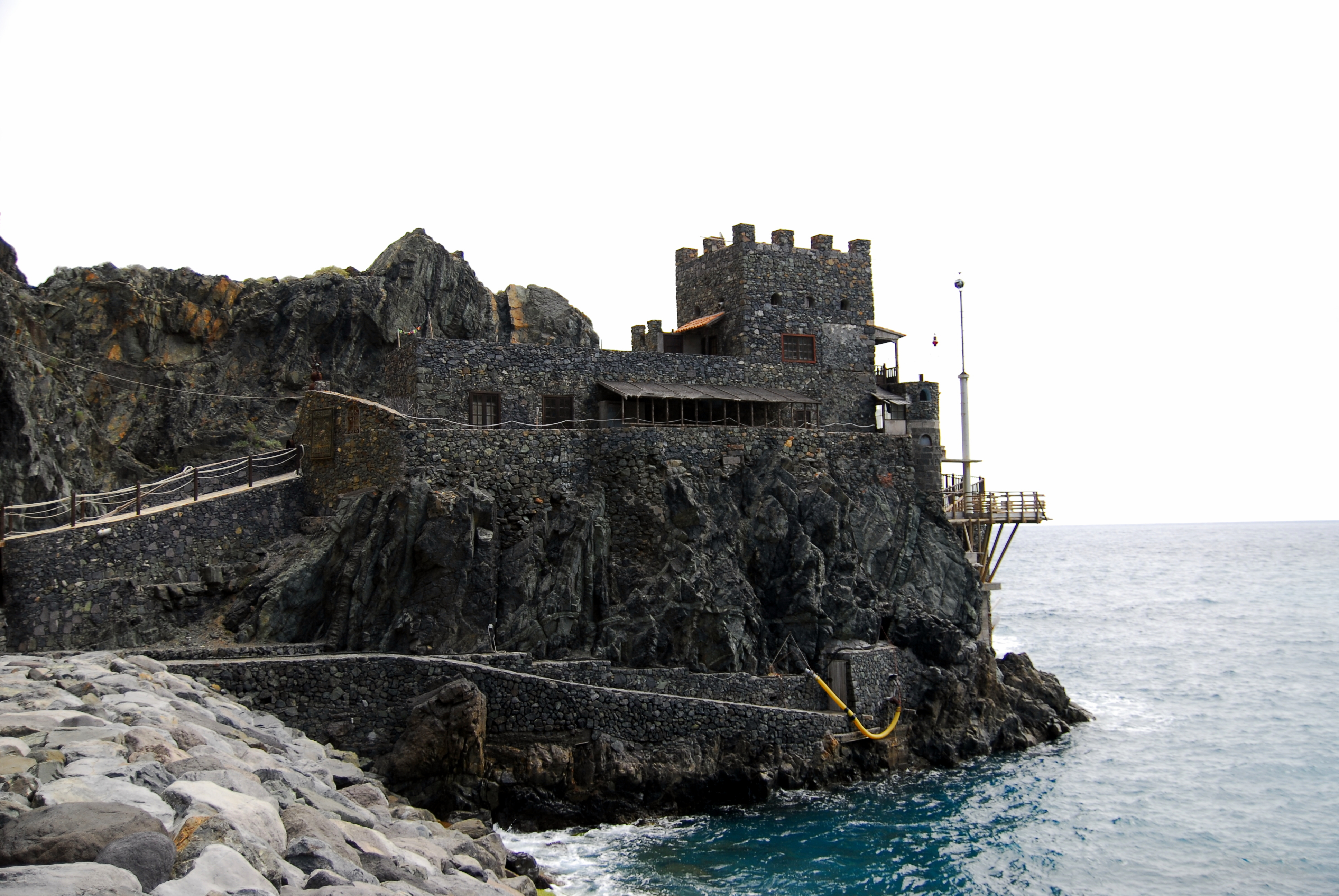 Castillo del Mar in Vallehermoso (La Gomera)